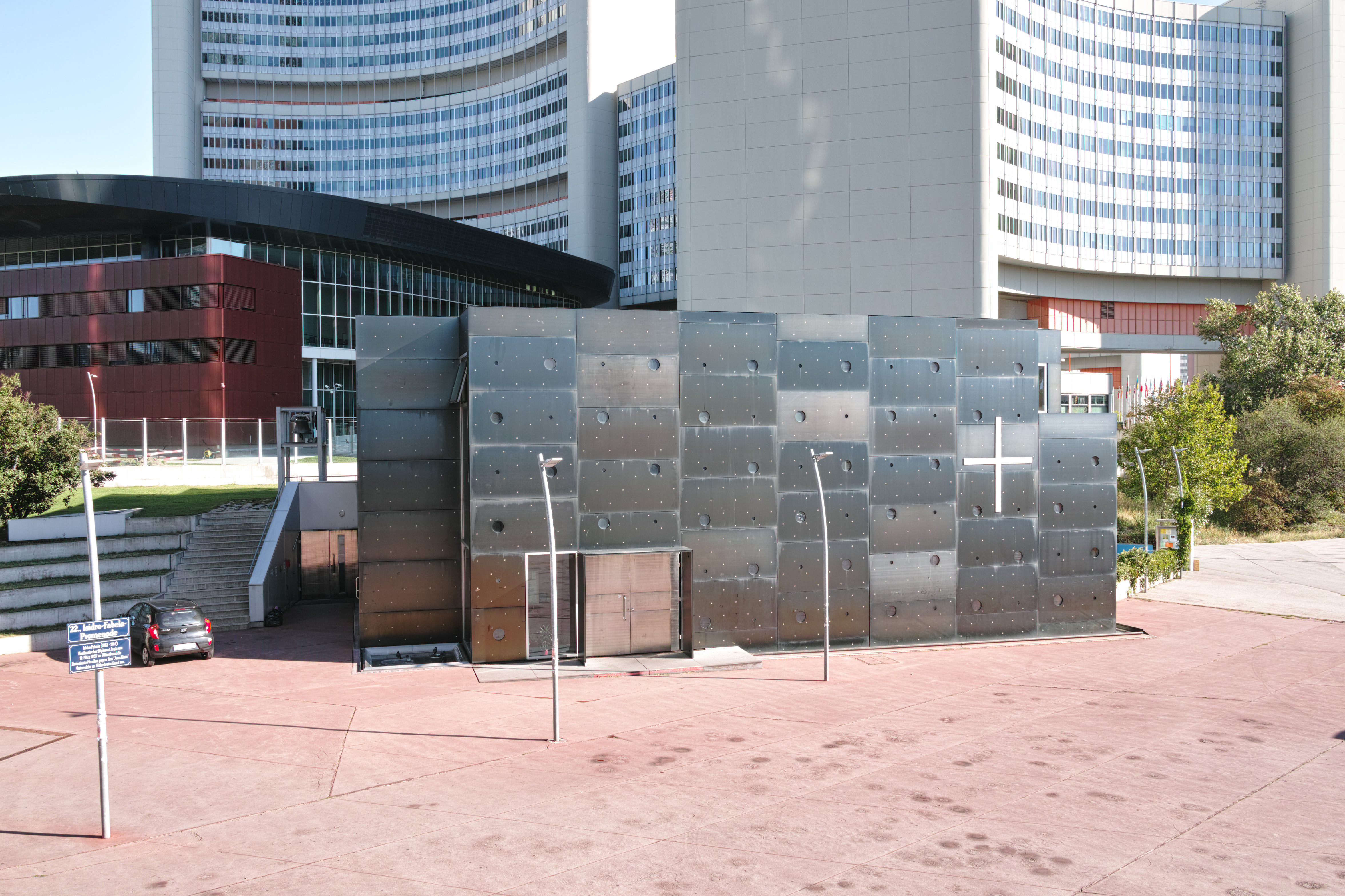 The Donau City Church, in the Donau City, a part of Vienna, Austria.